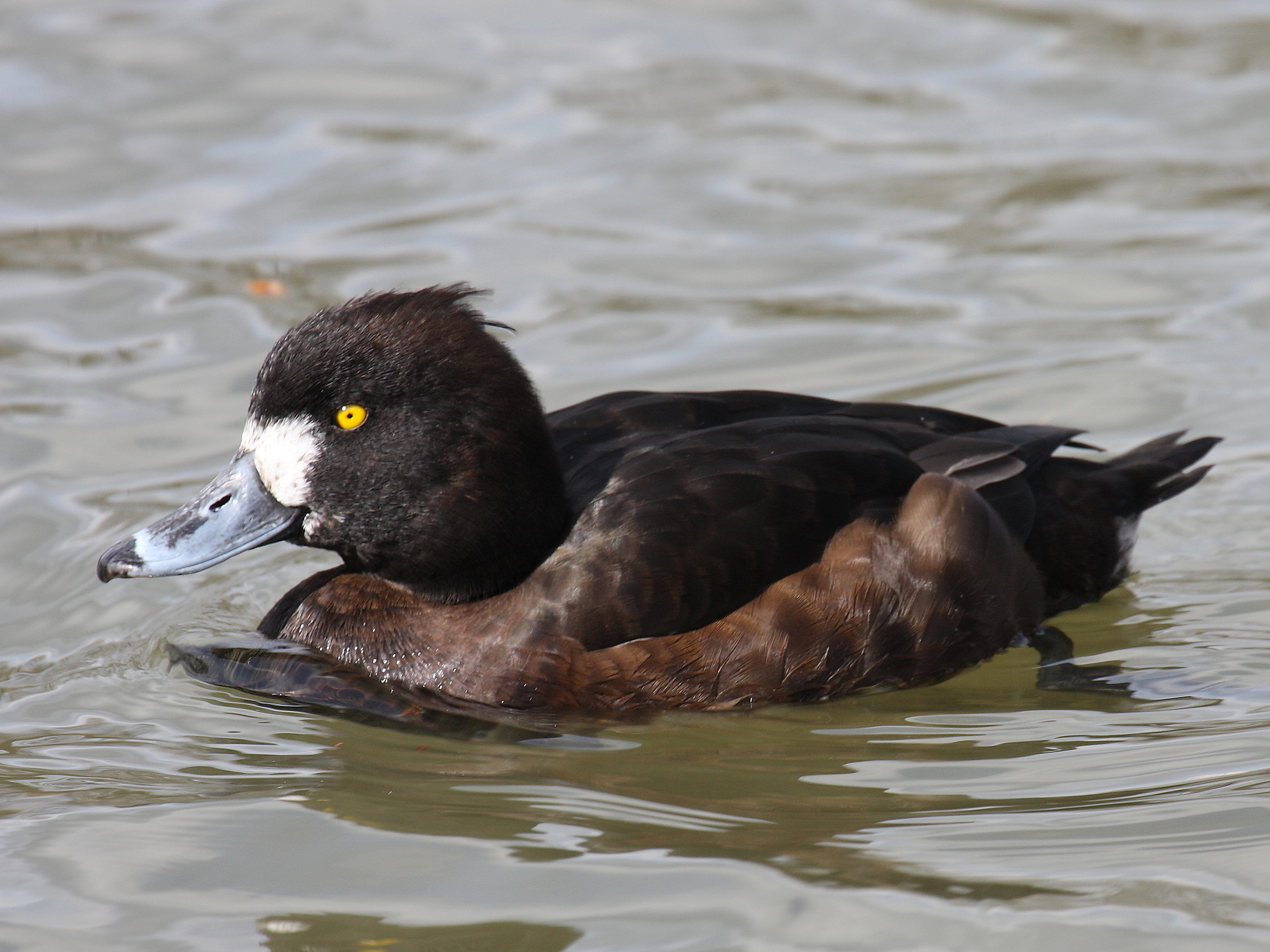 female Tufted Duck, Wohrasandfang, Kirchhain, Germany